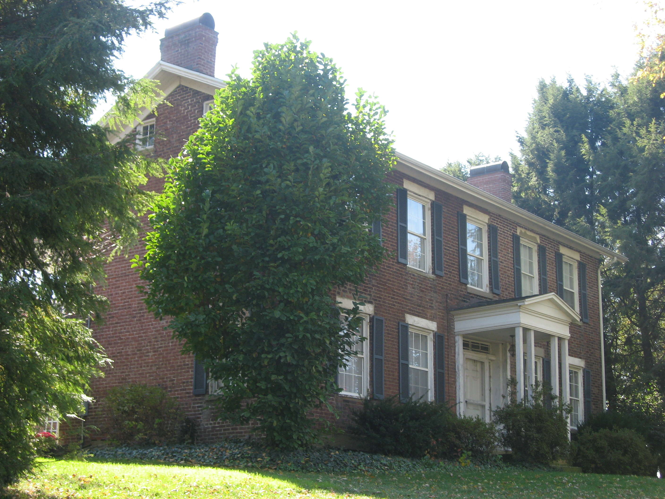 Front of the Tomlinson Mansion, located at 901 W. Third Street (West Virginia Route 14) in Williamstown, West Virginia, United States. Built in 1839, it is listed on the National Register of Historic Places.